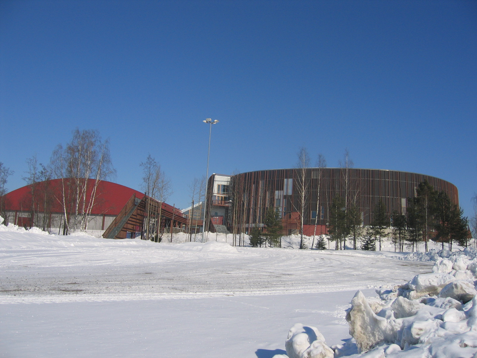 Hamar Olympic Amfi, Hamar, Hedmark, Norway.